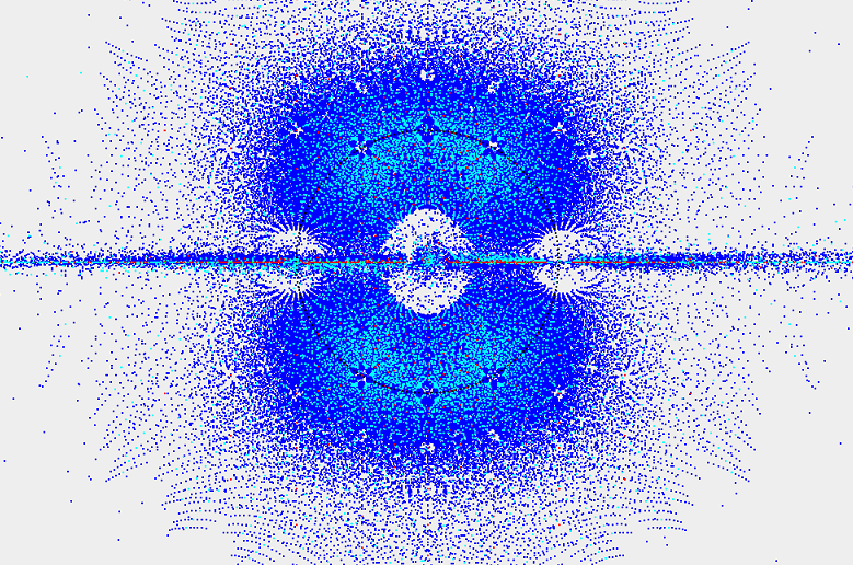 The image represents some algebraic numbers in the complex plane. The unit circle can be seen as black dots. The colors of the other dots represents the degree of the algebraic number (green = 1st, red = 2nd, cyan = 3rd, blue = 4th). All the polynomials used have integer coefficients between -5 and 5. The roots were approximated with 100 iterations of the Durand–Kerner method.